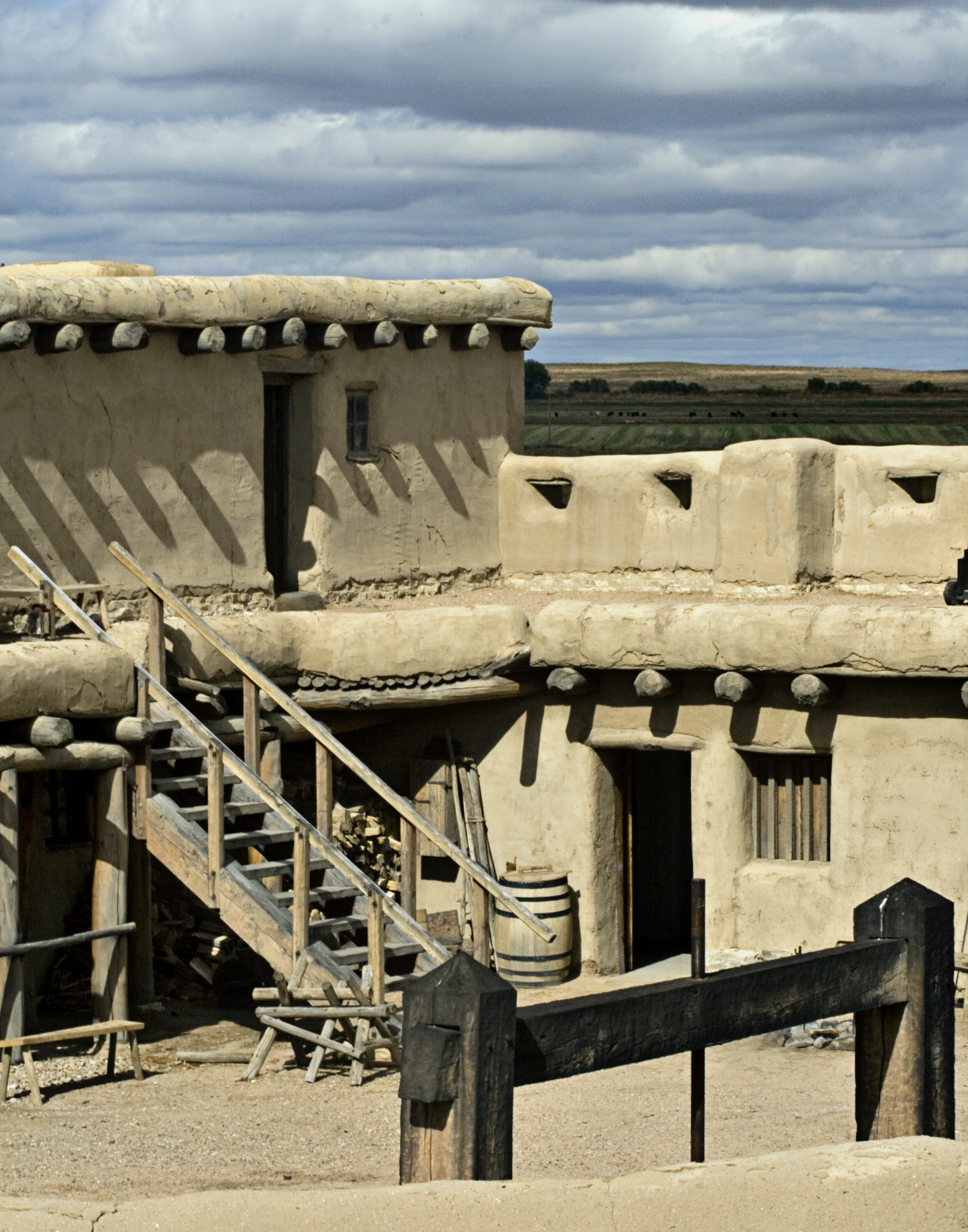 Buildings in Bent's Old Fort National Historic Site, Colorado